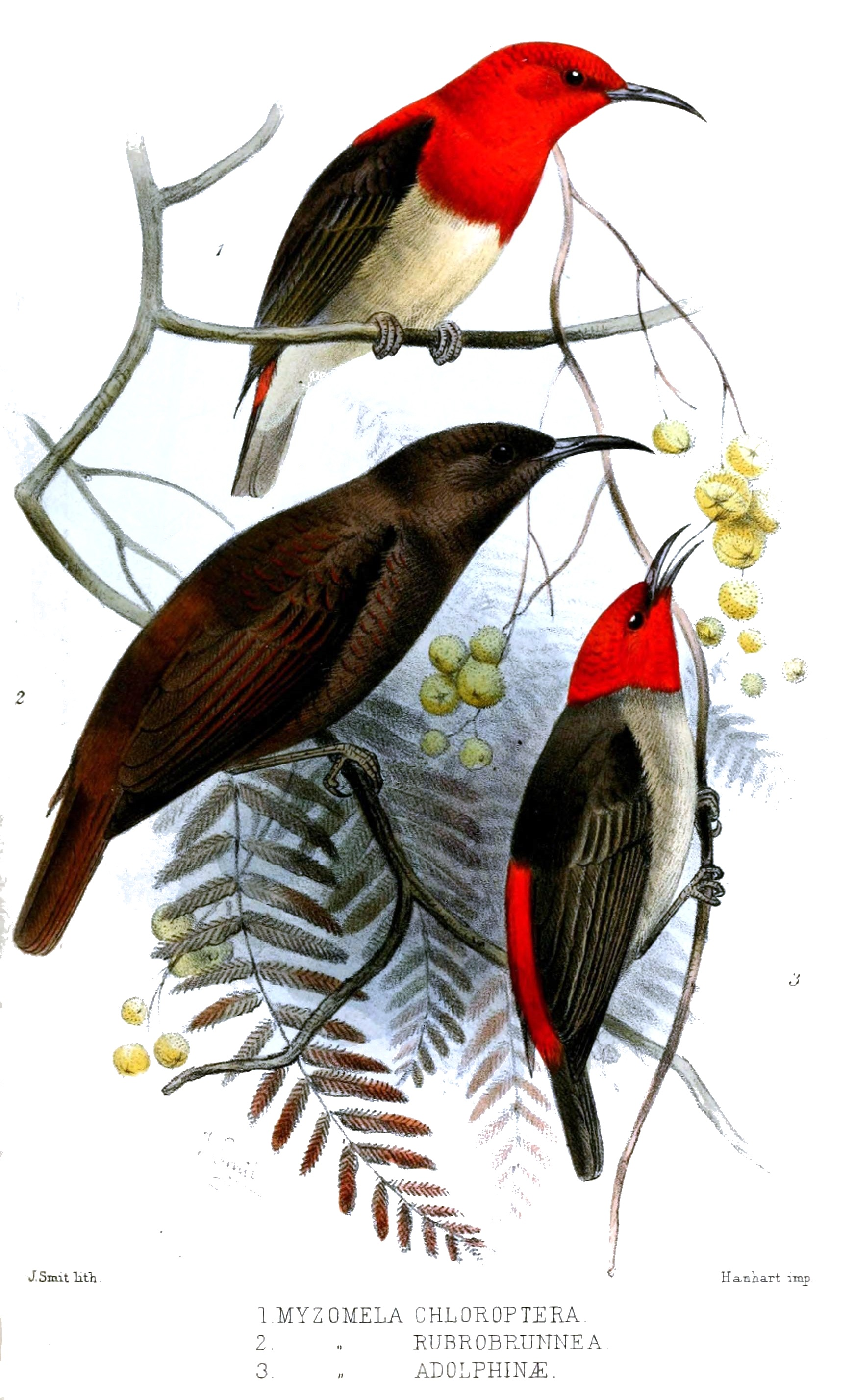 Adult males of Sulawesi Myzomela (top), Red-brown Myzomela (bottom left), Mountain Myzomela (bottom right)